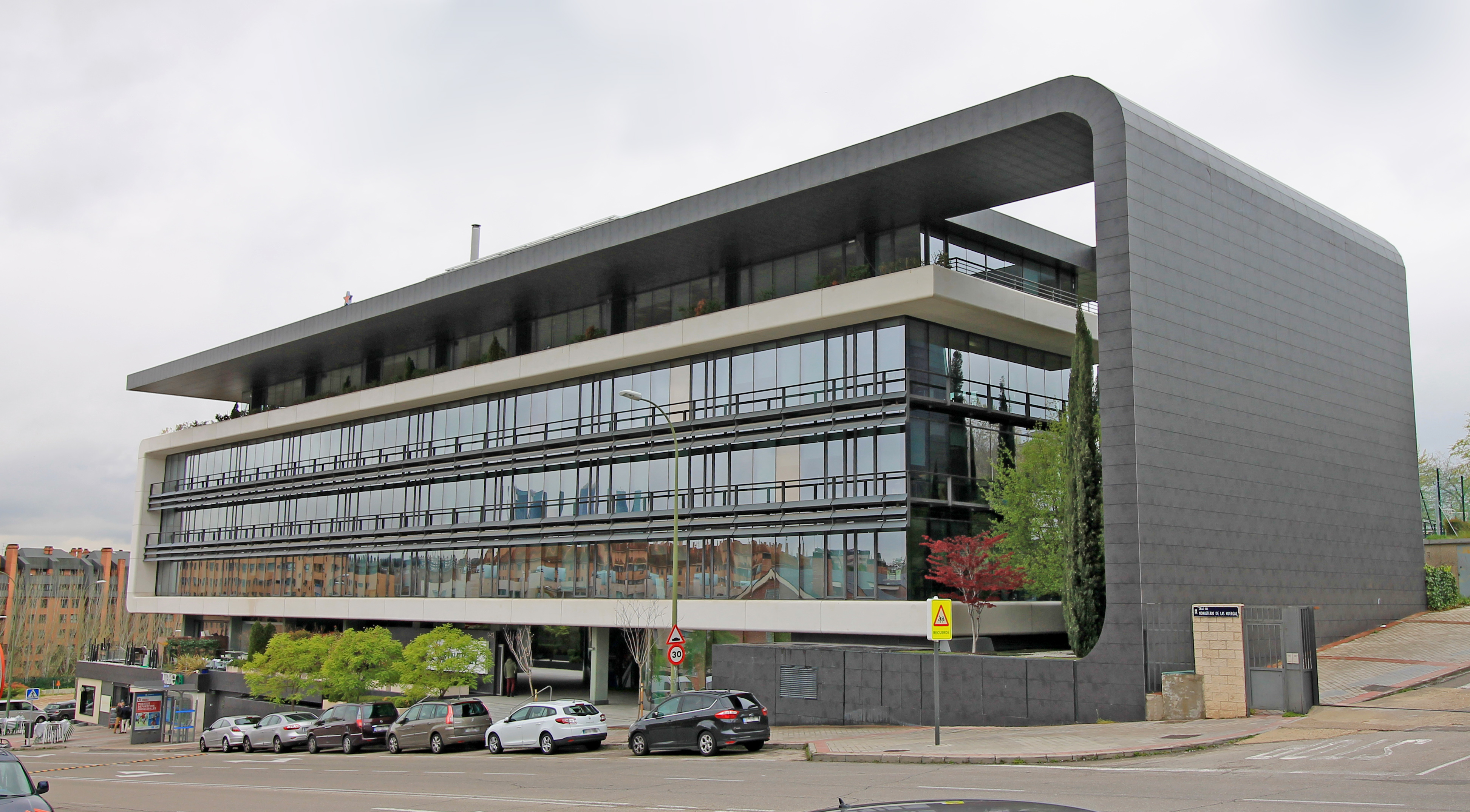 Façade of Monteolmo Building in Madrid (Spain). It is home to Heineken offices in Spain.